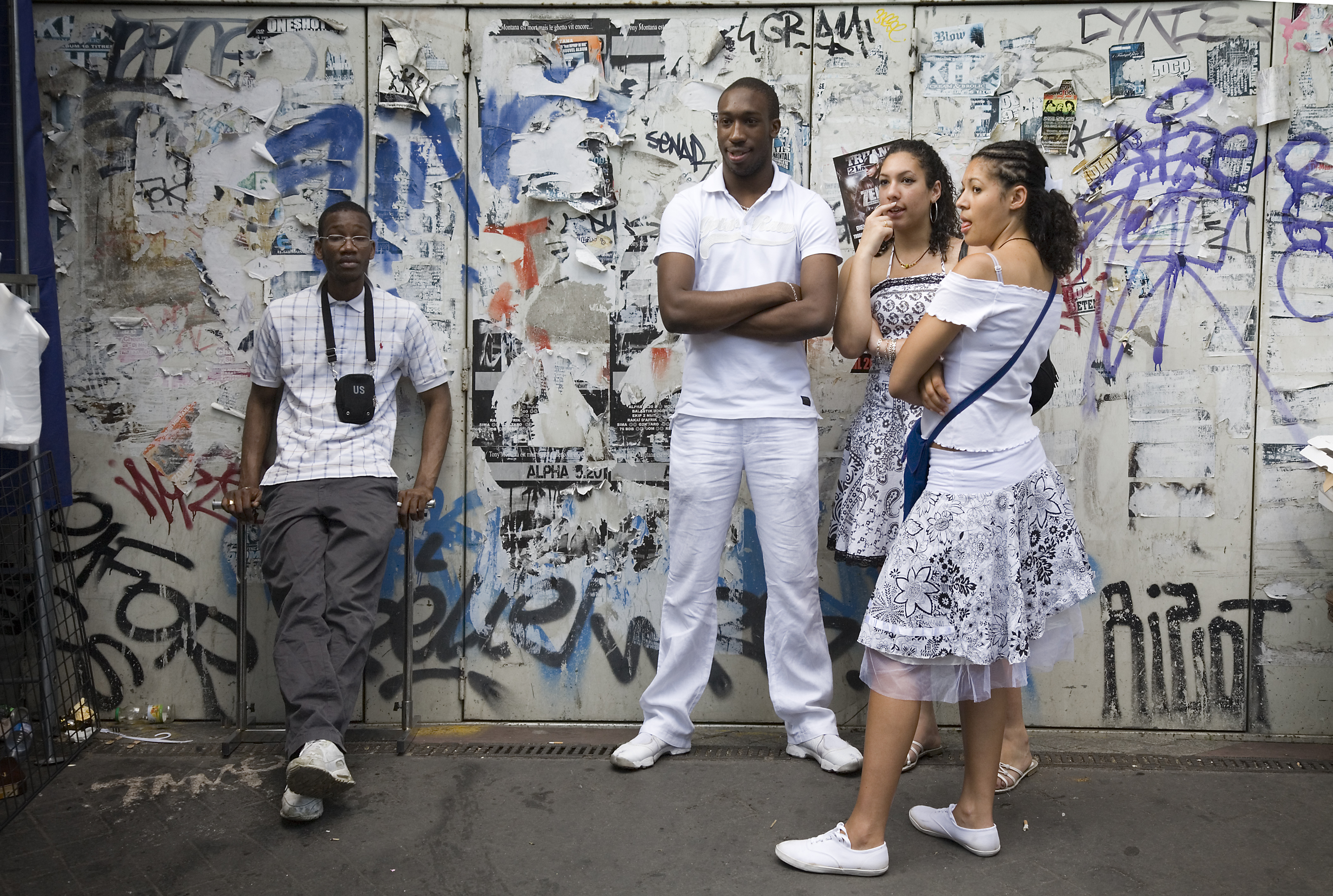 Black immigrants in the marche Dauphine, Paris